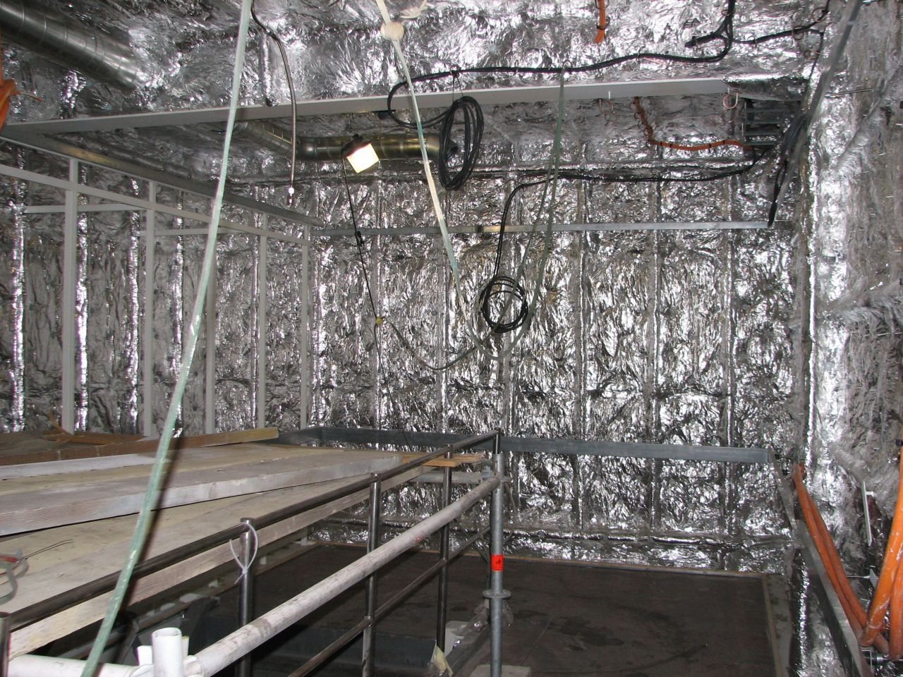 Flensburg Ship Building Company. This appears to be marine fireproofing.